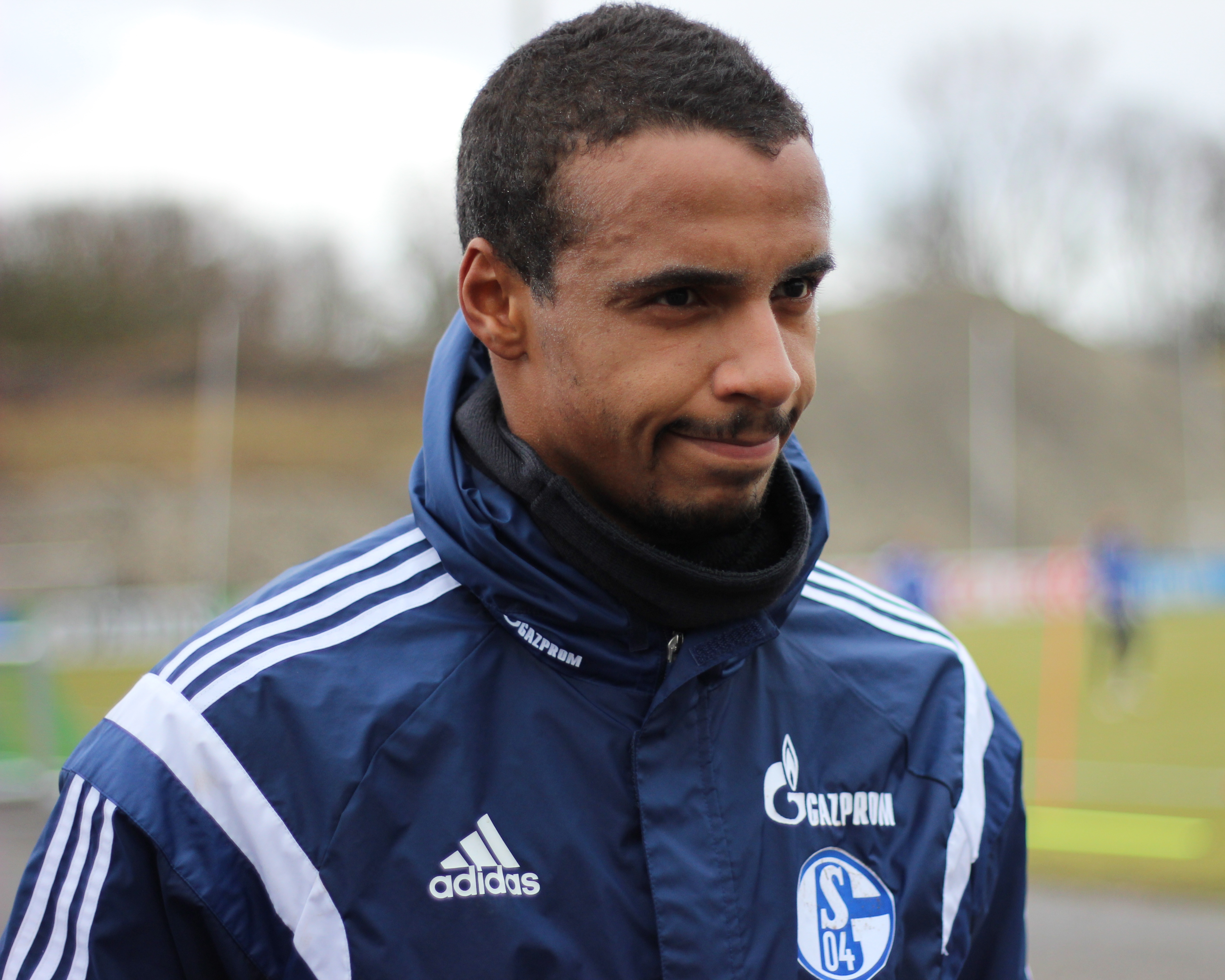 Joël Matip at a Schalke 04 training on 20 January 2015.